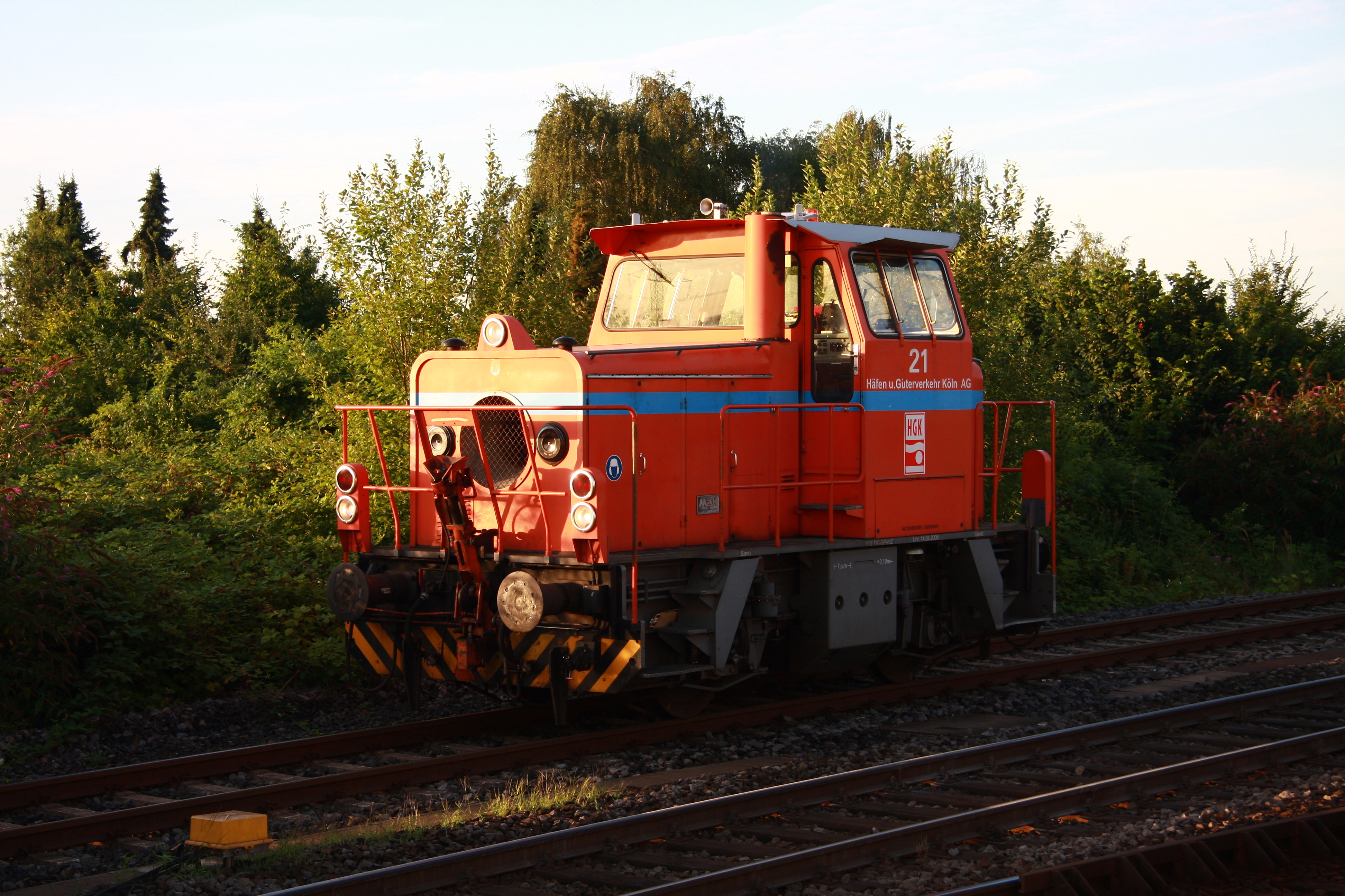 MaK G 321 B locomotive manufactured in Germany by Maschinenbau Kiel GmbH and owned by Häfen und Güterverkehr Köln AG. Photograph taken in Brühl (Rhineland), Germany.